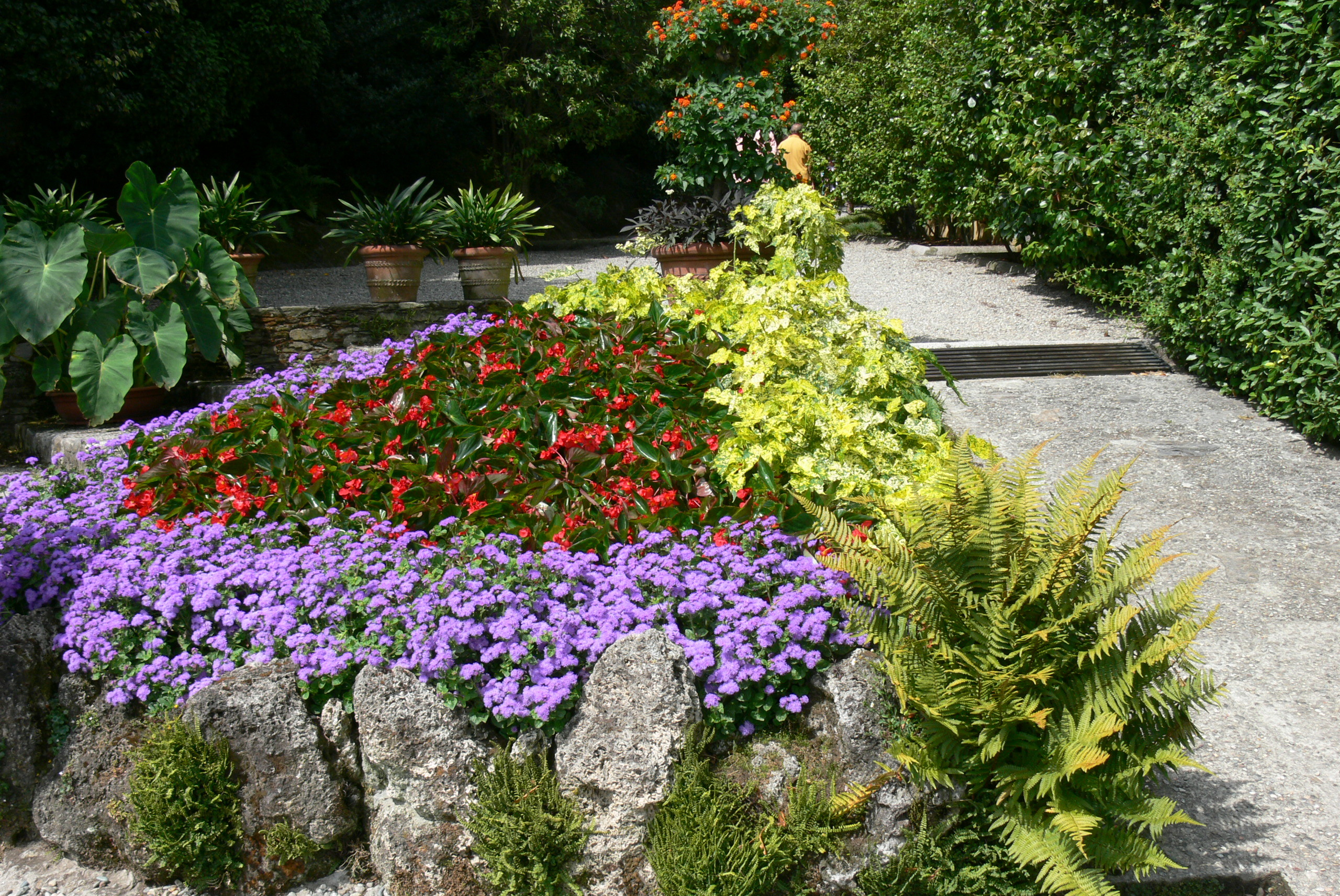 Isola Madre ( Lago Maggiore ). Botanical gardens: Flower bed.